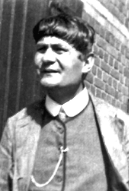 Bernhard Uffrecht (1885–1959) in the early 1920s. The progressive pedagogue started his career at Freie Schulgemeinde Wickersdorf near Saalfeld in Thuringia Forest, which was founded by Gustav Wyneken (1875–1964) and partially administrated by Martin Luserke (1880–1968). Uffrecht left the boarding school in 1919 due to Wynekens dominance. The very same year he founded Freie Schul- und Werkgemeinschaft, which initially was located at Sinntalhof near Brückenau in Lower Franconia before it settled in Jagdschloss Letzlingen in 1922.